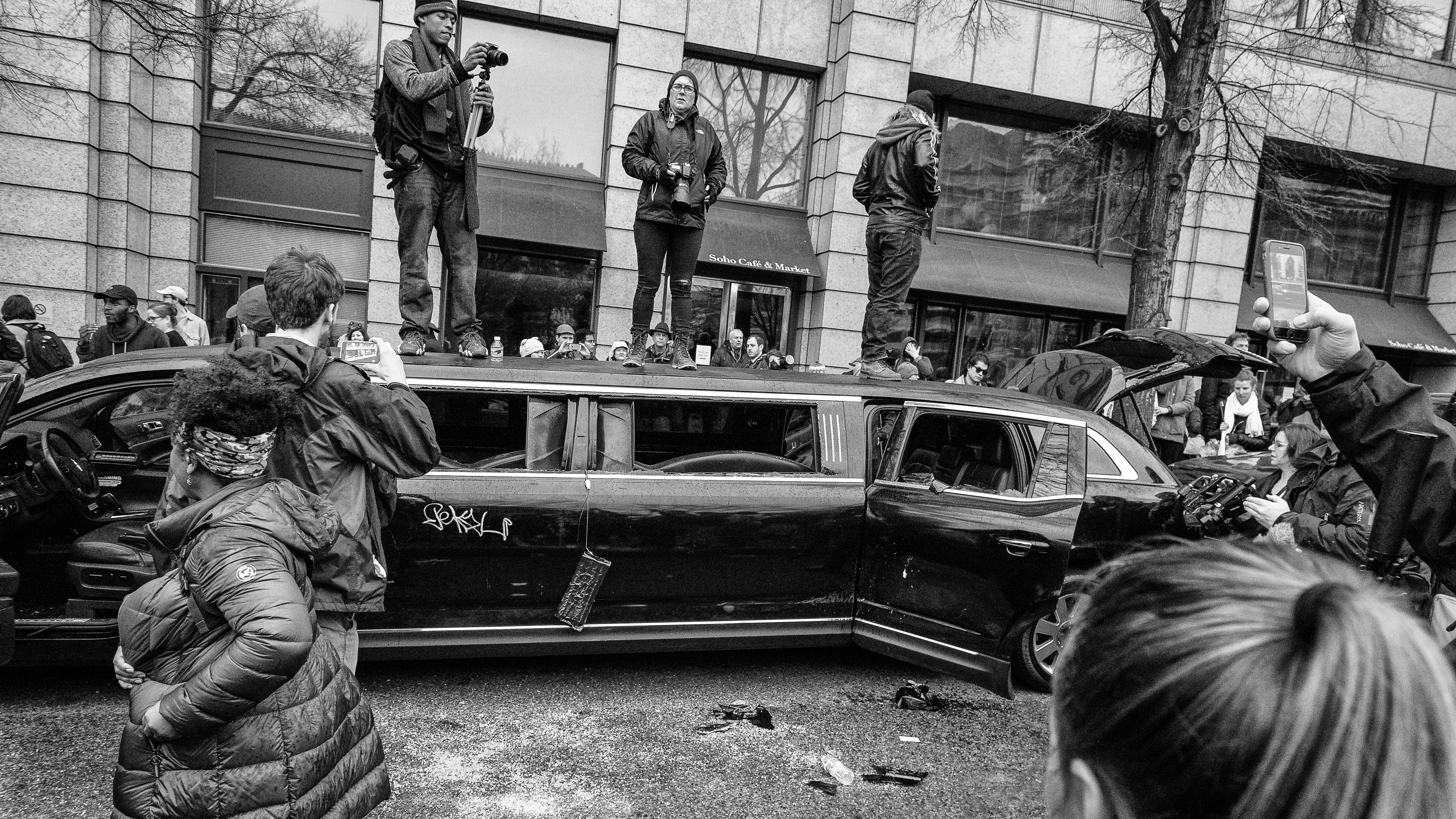 One limousine became a day-long magnet for protesters, observers, and reporters during the Trump Inauguration on 20 January 2017. An early target of a passing protest march, when a few windows were smashed, it later was heavily vandalized (as seen here, after the fact). Some hours later it was torched and the site became a flash point between police and demonstrators from adjacent Franklin Park.